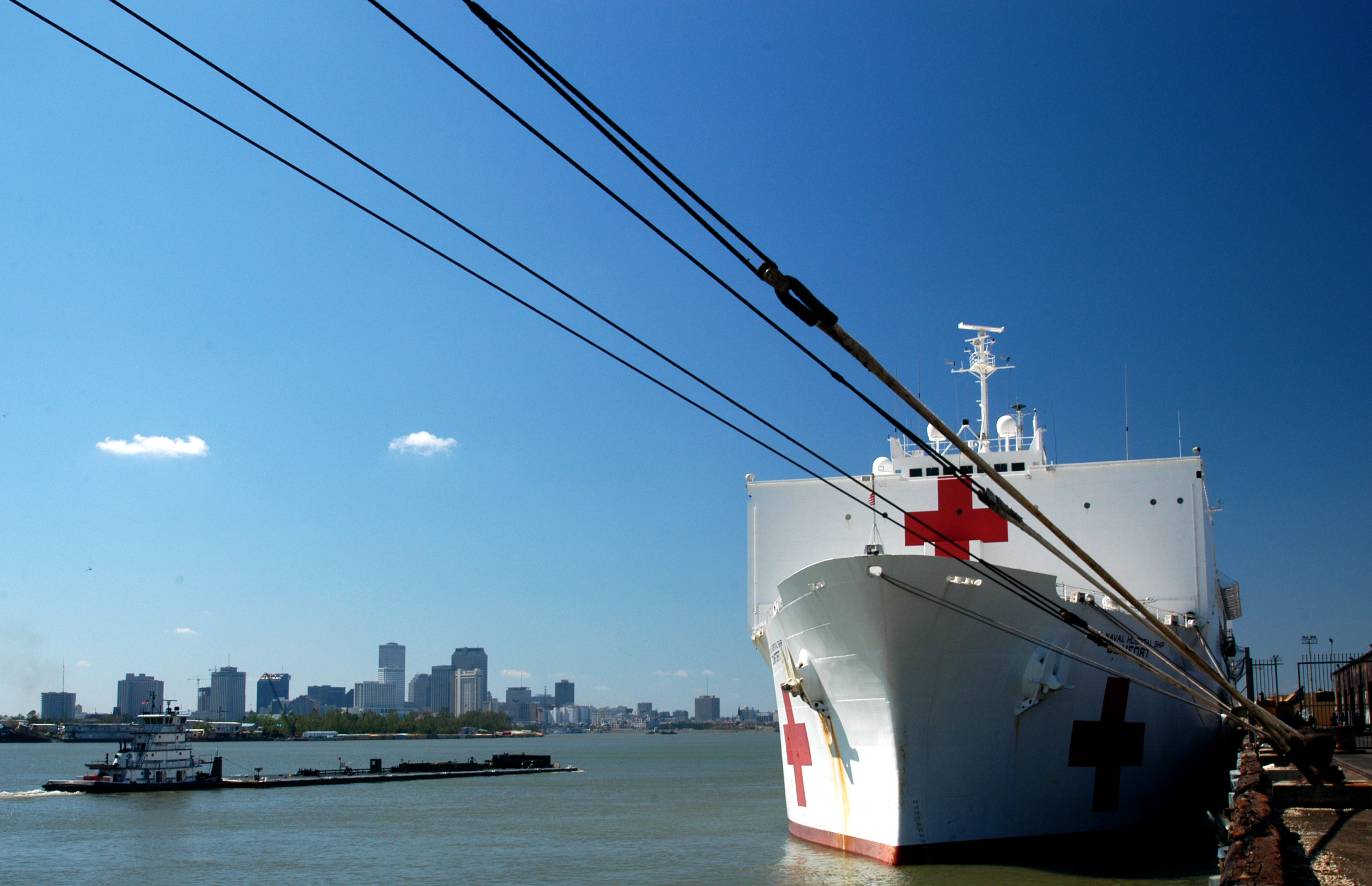 New Orleans, October 6, 2005 - The USNS Comfort, a 1,000 bed hospital ship, is now docked in the city and is providing critical medical care to those affected by Hurricanes Katrina and Rita. Doctors from Louisiana State University are working side-by-side with military personnel to deliver aid to the injured and sick transported to this floating medical facility. Win Henderson / FEMA